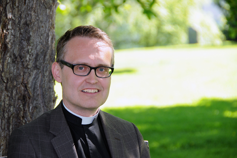 photo of mr Goran Lundstedt